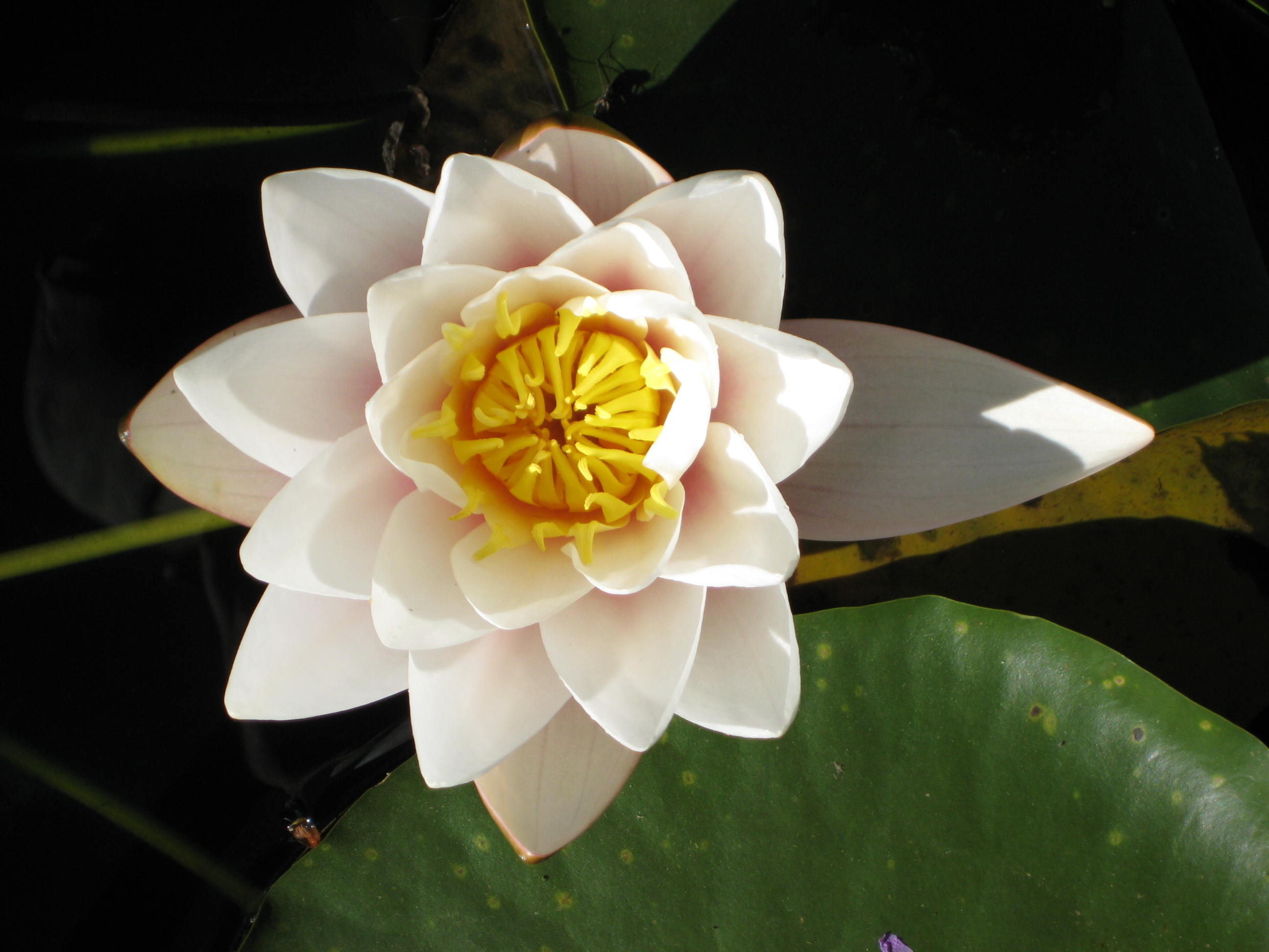 Nymphaea alba